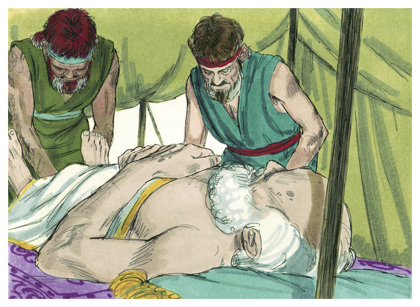 Biblical illustration of Book of Genesis Chapter 35